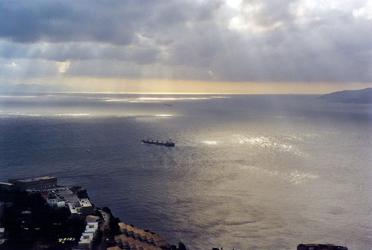 View of the Strait of Gibraltar opening into the Mediterranean Sea, looking southwest from Gibraltar.